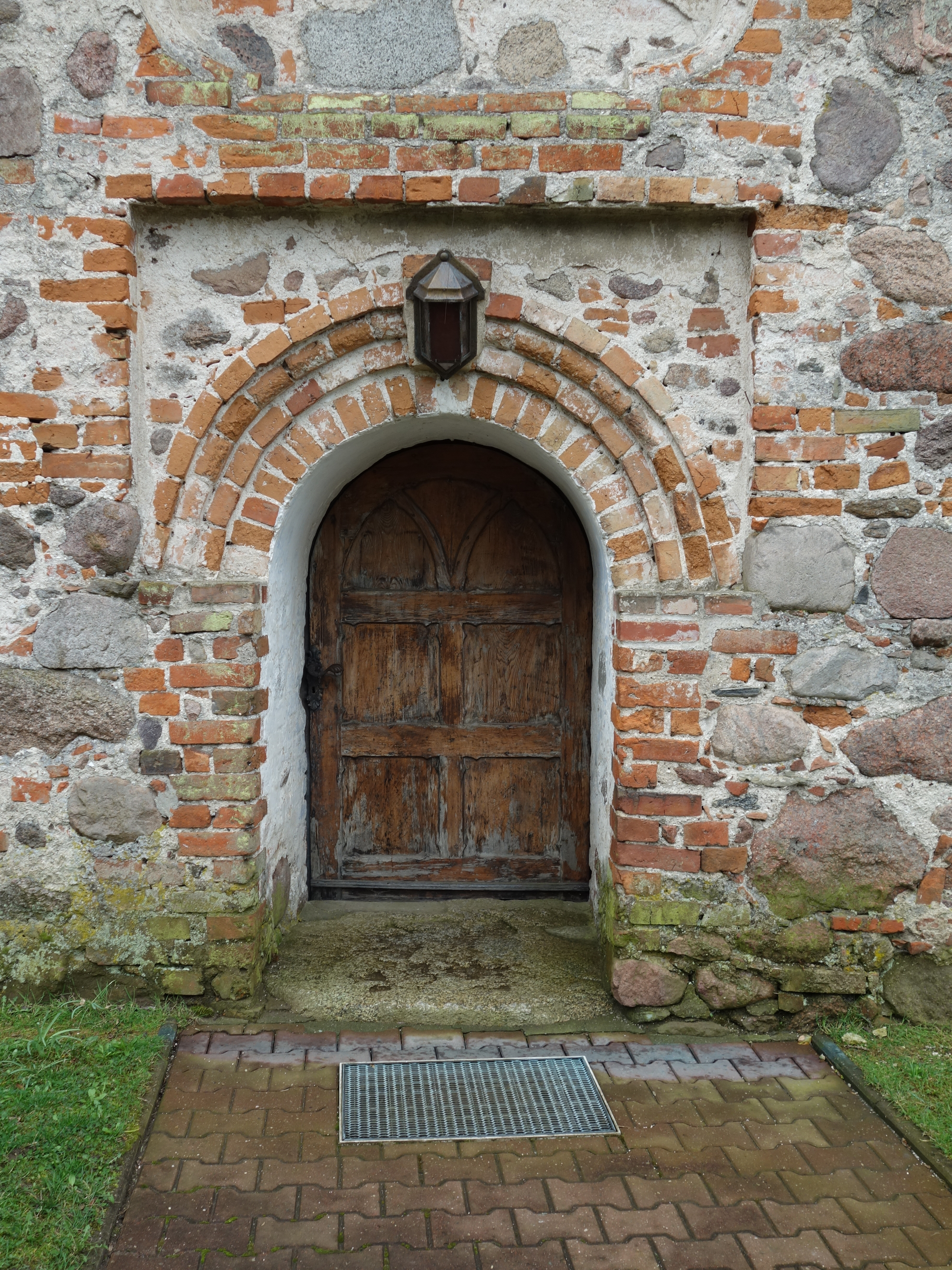 Portal of church in Trebenow, Uckerland municipality, Uckermark district, Brandenburg state, Germany